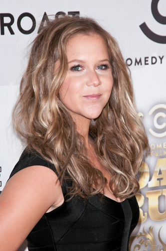 Amy Schumer